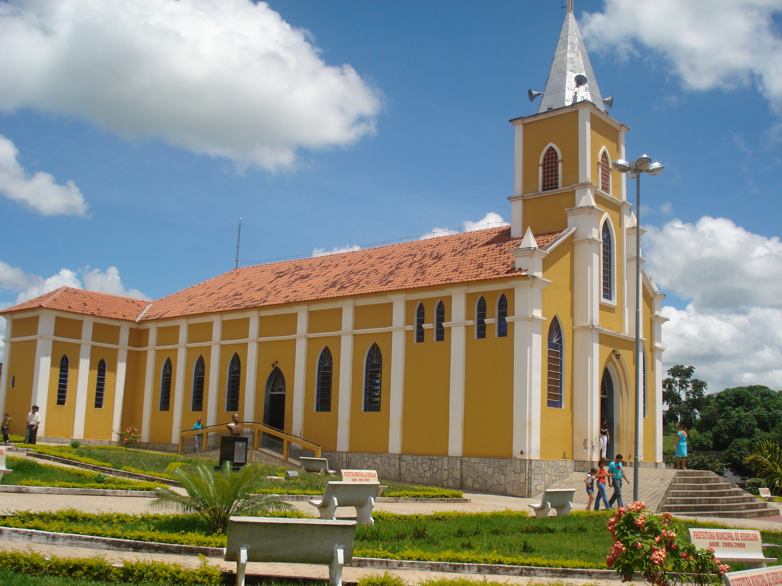 matrizhidrolina